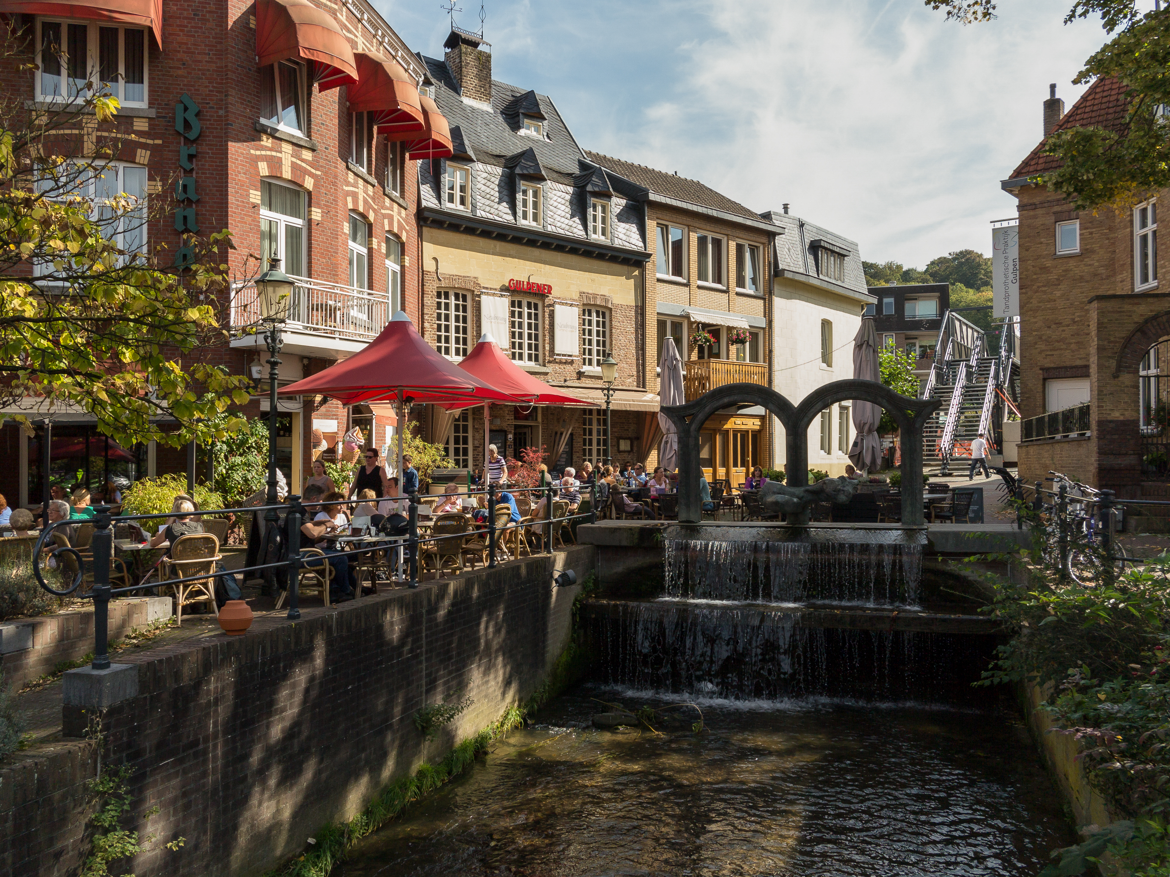 Gulpen, river: de Gulp